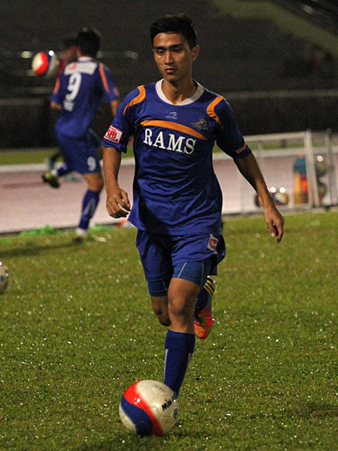 Dinie Fitri warming up before a Woodlands Wellington match.